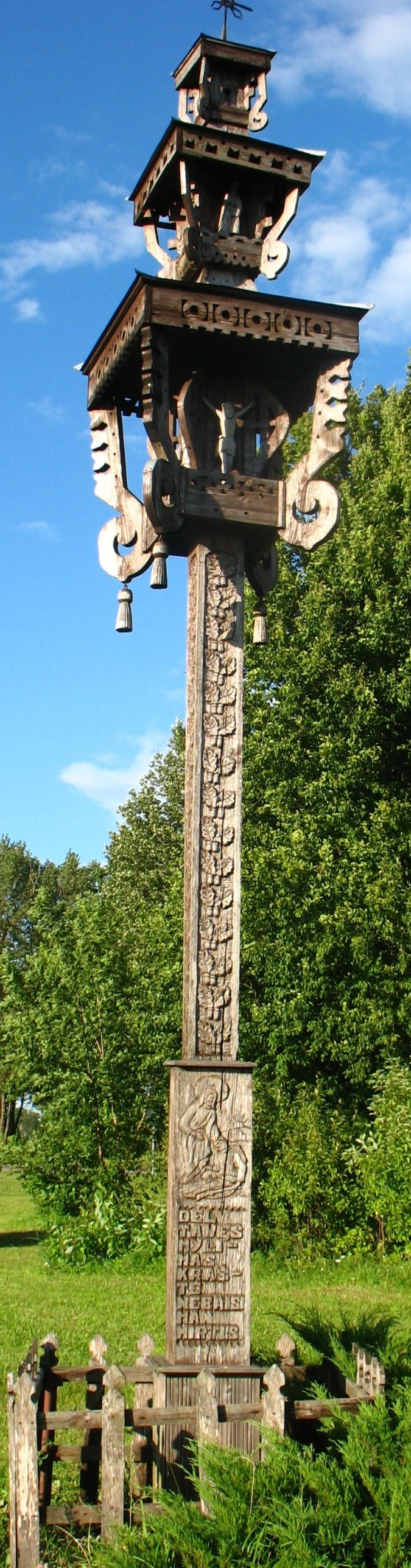 Šaulių kryžius, Jonava